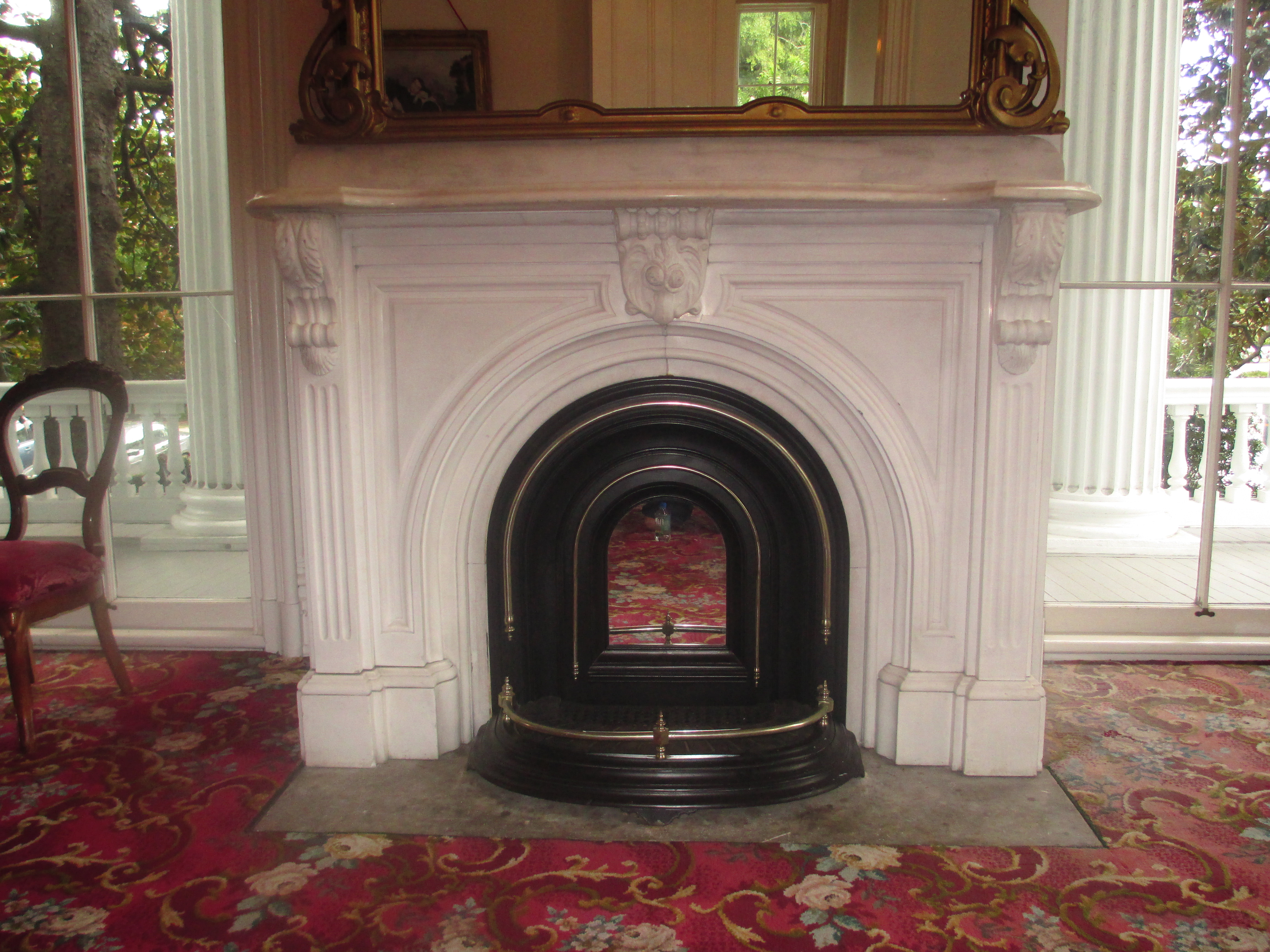 I took photo of mantle at Bellamy Mansion with Canon camera.